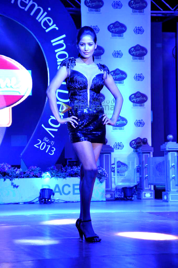 Poonam Pandey at Signature Premier Indian Derby 2013 for Pria Kataria Puri's fashion show